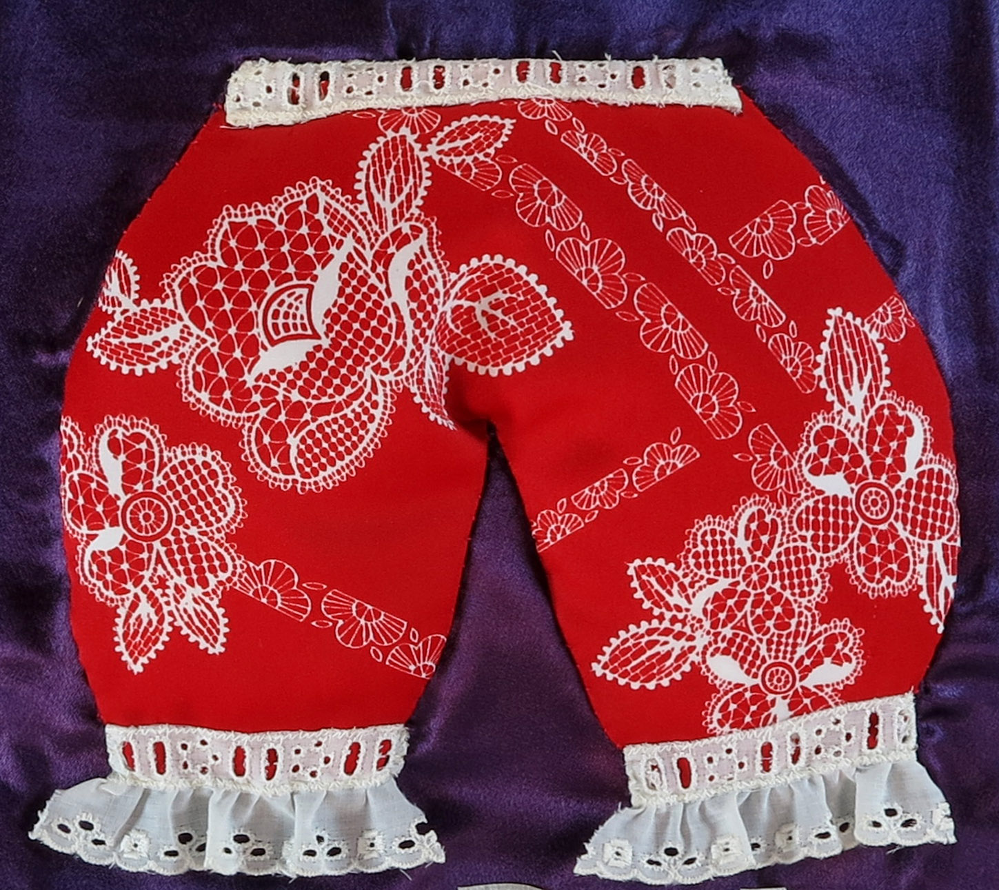 The purple satin background is trimmed in white lace with a blue and red star border. The pair of red and white bloomers in the center is a play on Betty's maiden name. White text above the bloomers reads, “Don't Tread on Me,” and below, “E.R.A.” - demonstrating Betty’s support for the Equal Rights Amendment. A wife of one of Betty’s staffers handmade it for her as a limousine flag.